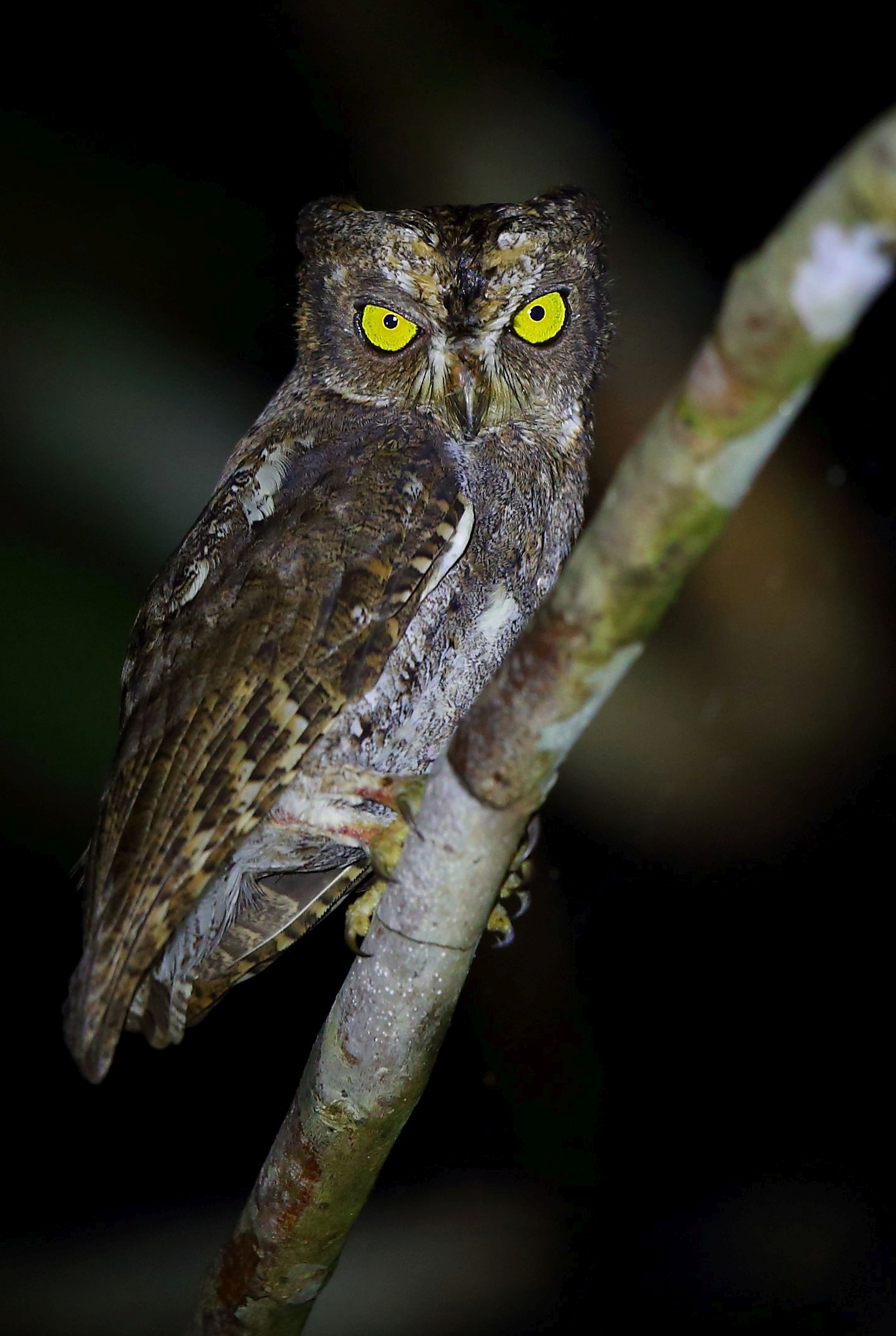 Walden's Scops Owl (endemic to Andaman Islands)